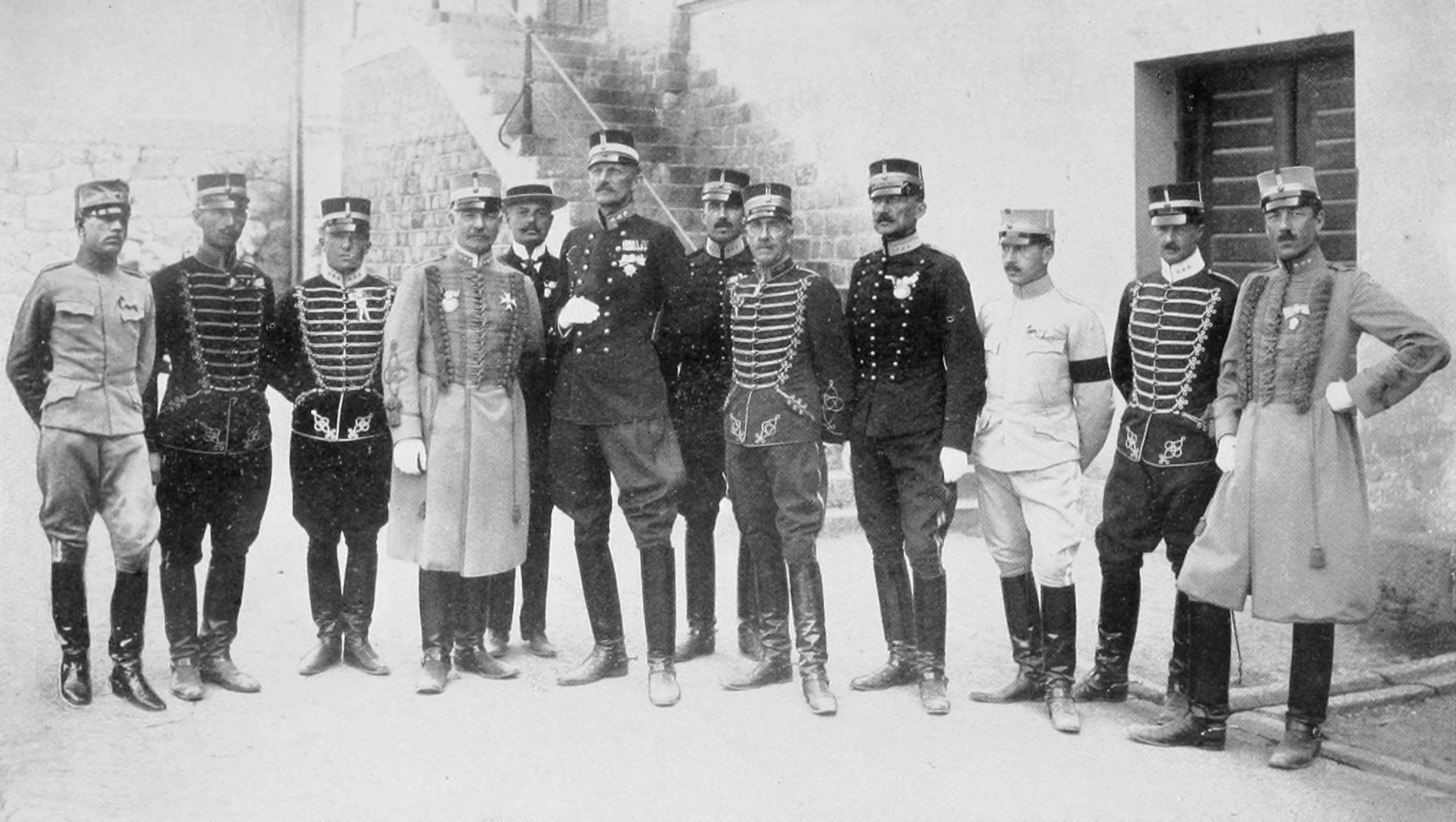 Committee for horse riding competition at the olympic games of Stockholm, 1912